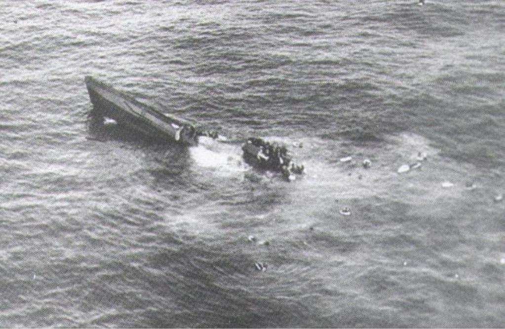 U-625 sinking after bomb raid from RCAF-Schwadron 422/U with Short S. 25 Sunderland flying boat